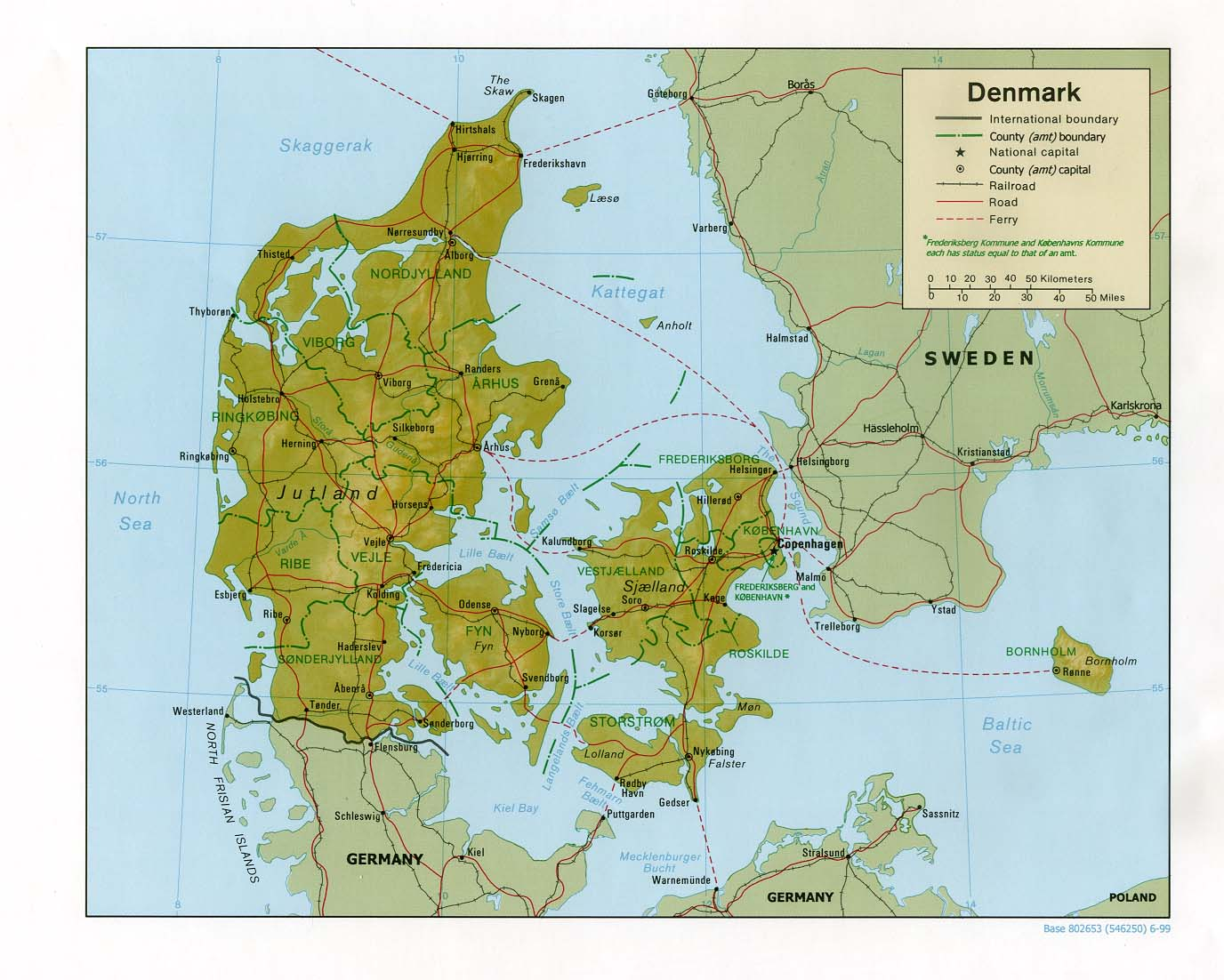 Map o Denmark with relief